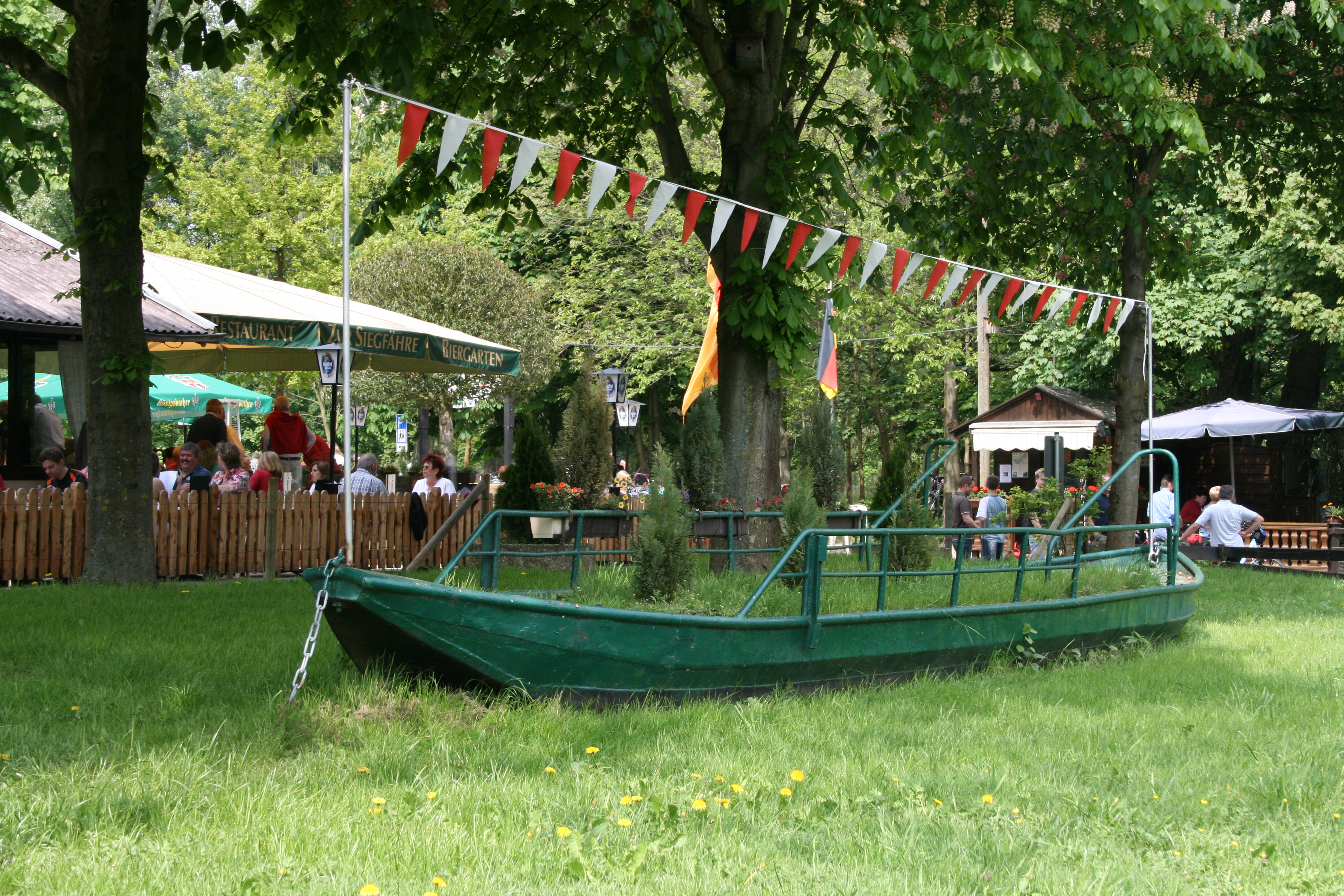 Former reaction ferry "Sieglinde" upon german river Sieg, located in Troisdorf-Bergheim nearby Bonn.